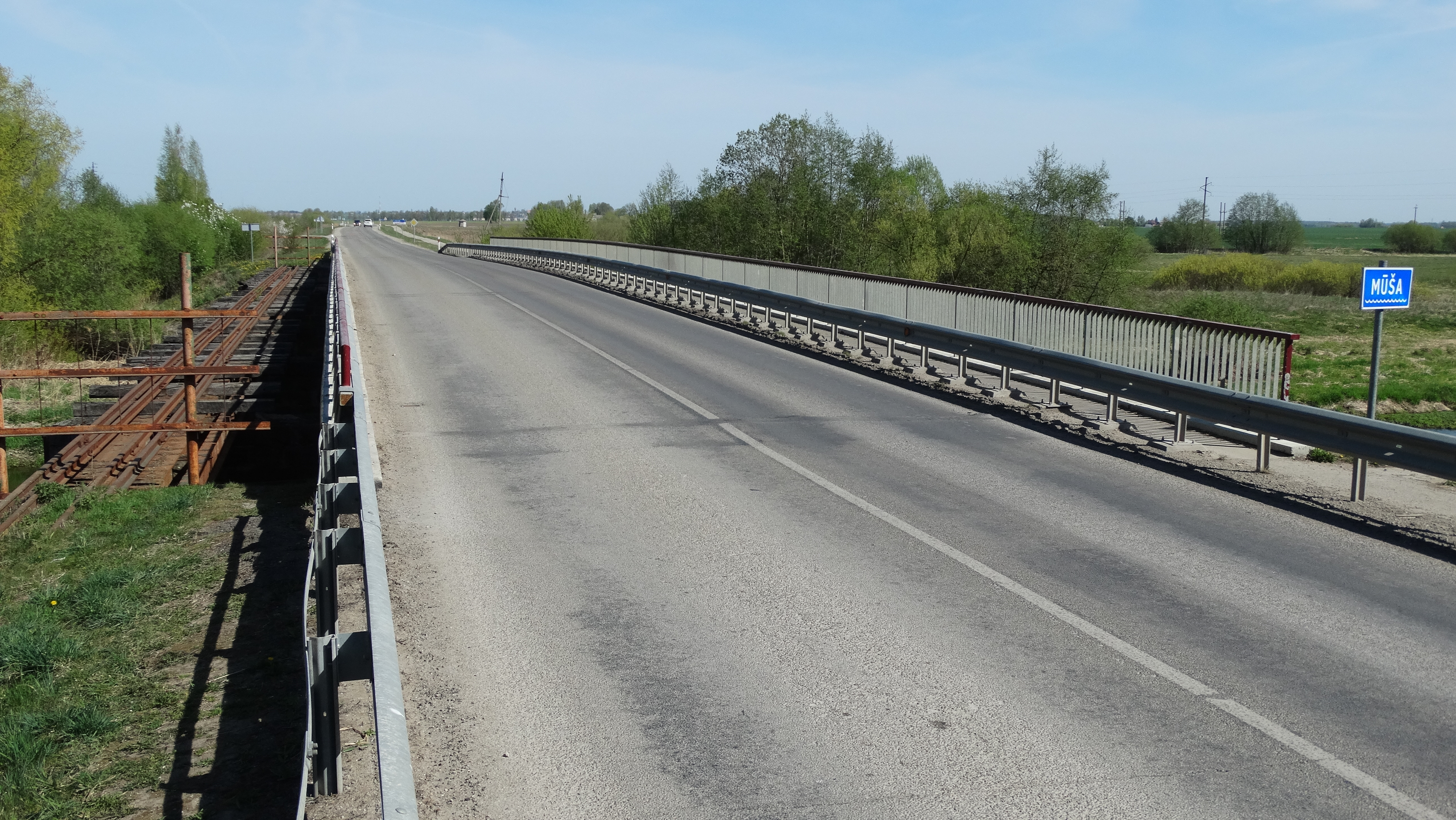 Bridge on Mūša River, Petrašiūnai, Pakruojis district, Lithuania